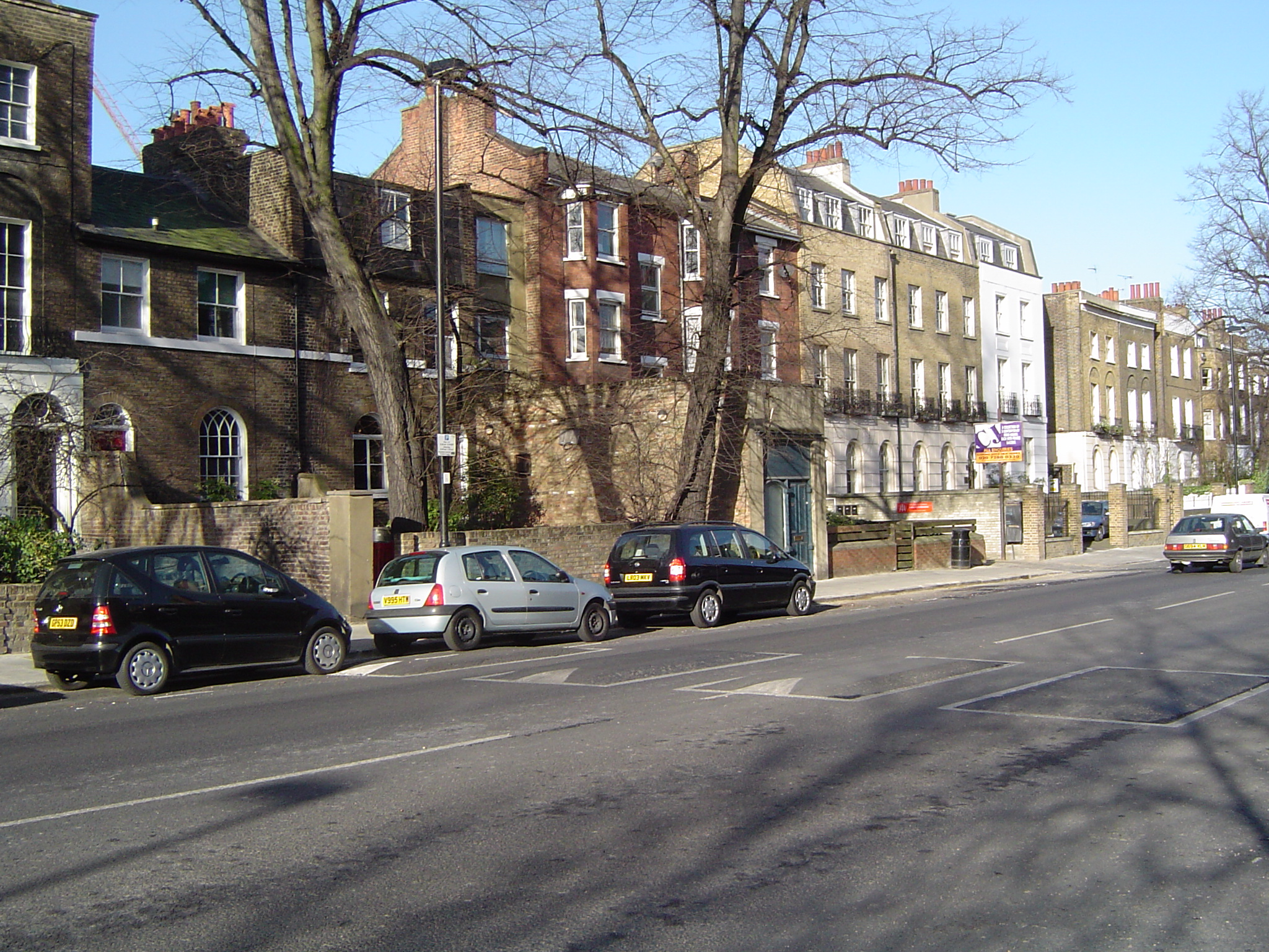 Towards north end of Liverpool Road, Islington.